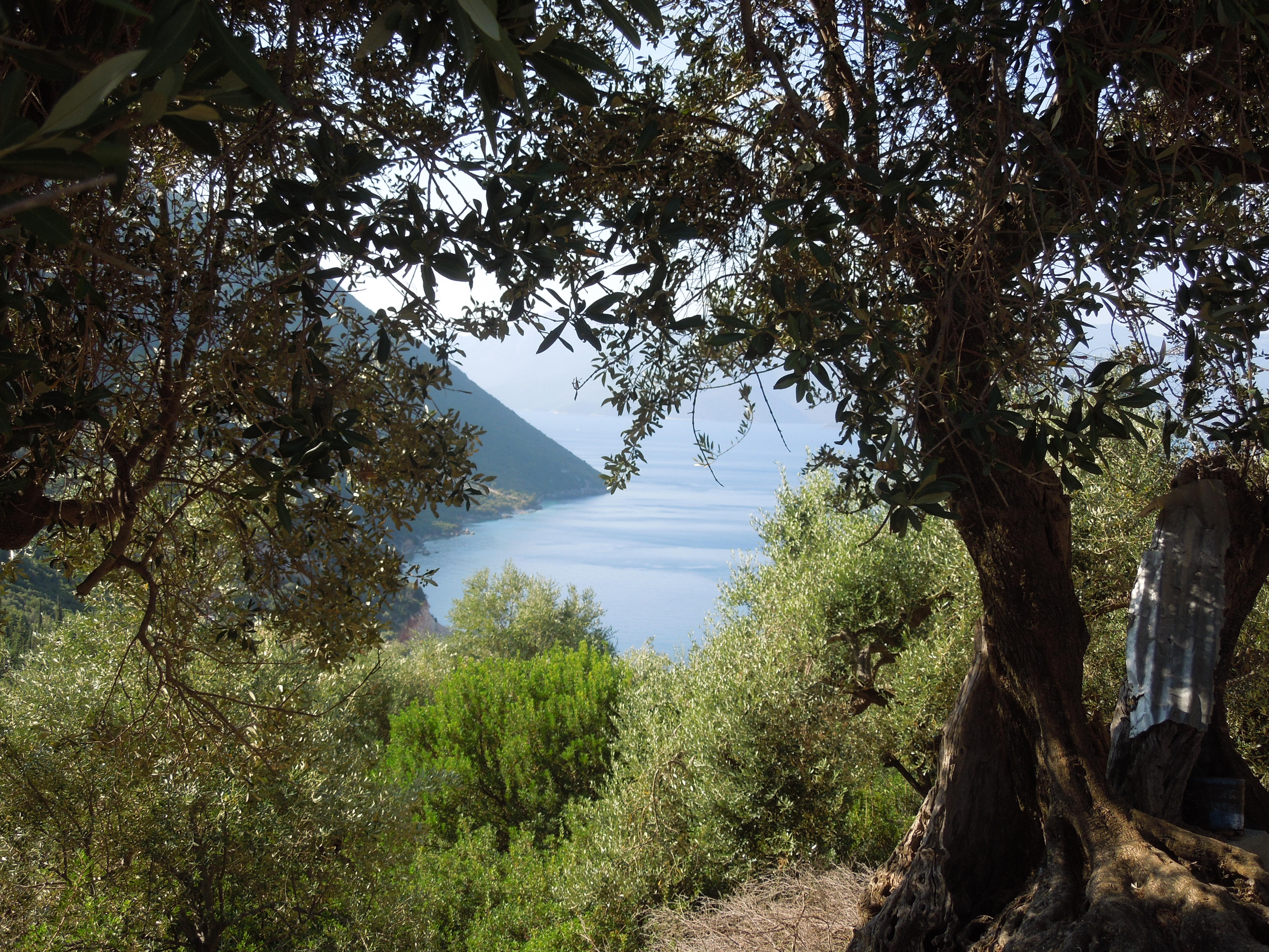 Ithaka: Molos Gulf seen from the Isthmus of Aetos at Alalkomenai; ancient olive tree in the foreground